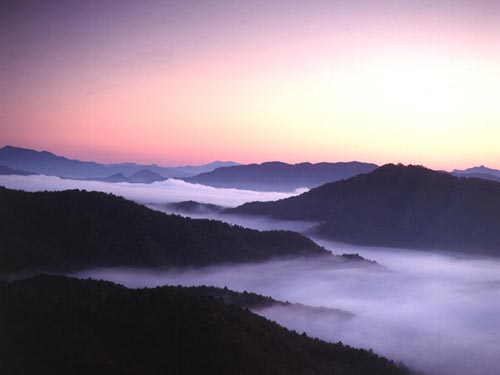 Jirisan Shrouded by Cloud